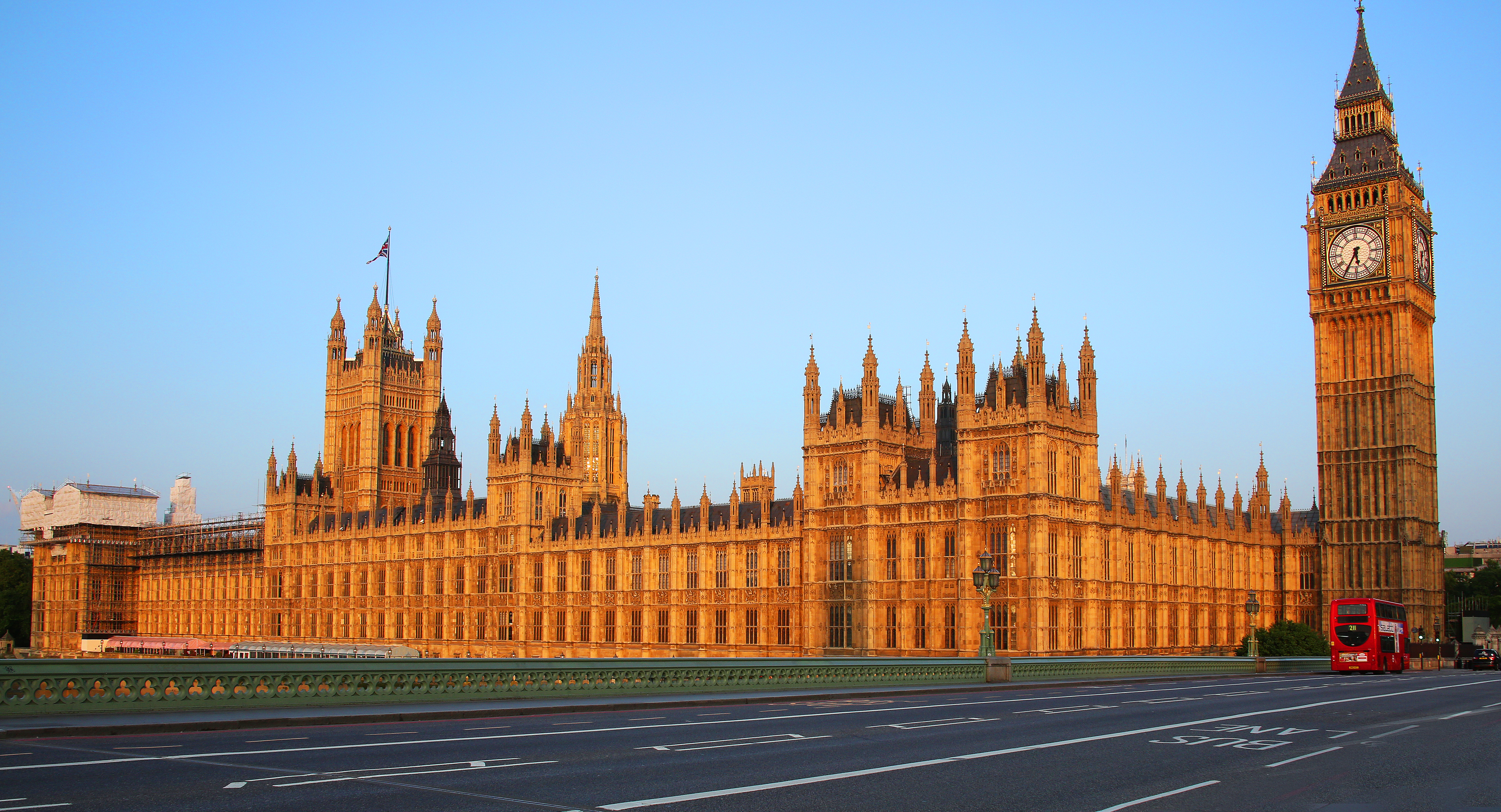 British Parliament and Big Ben